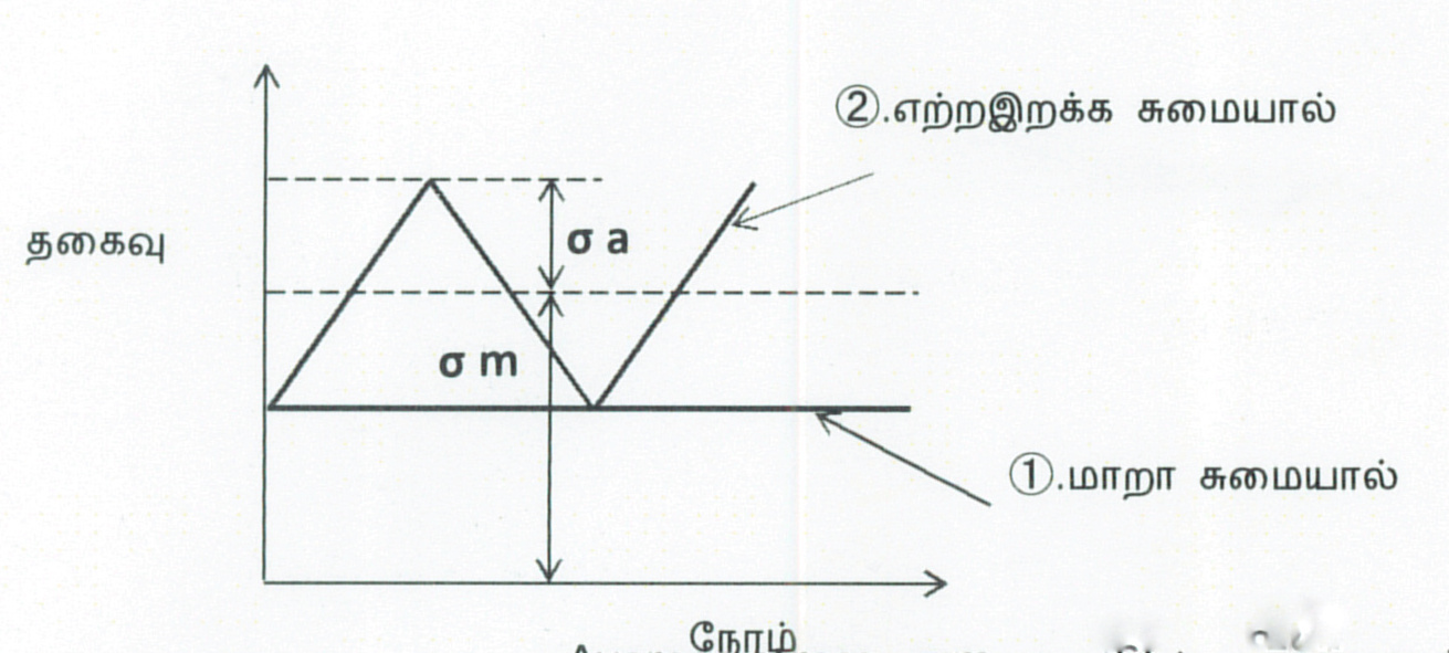 FATIGUE LIMIT